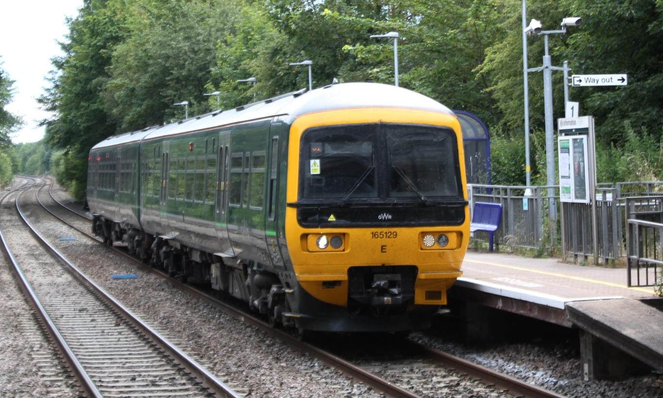 Great Western Railway two-car 'Turbo' 165129 calls at Yate with a service from Southampton to Great Malvern.